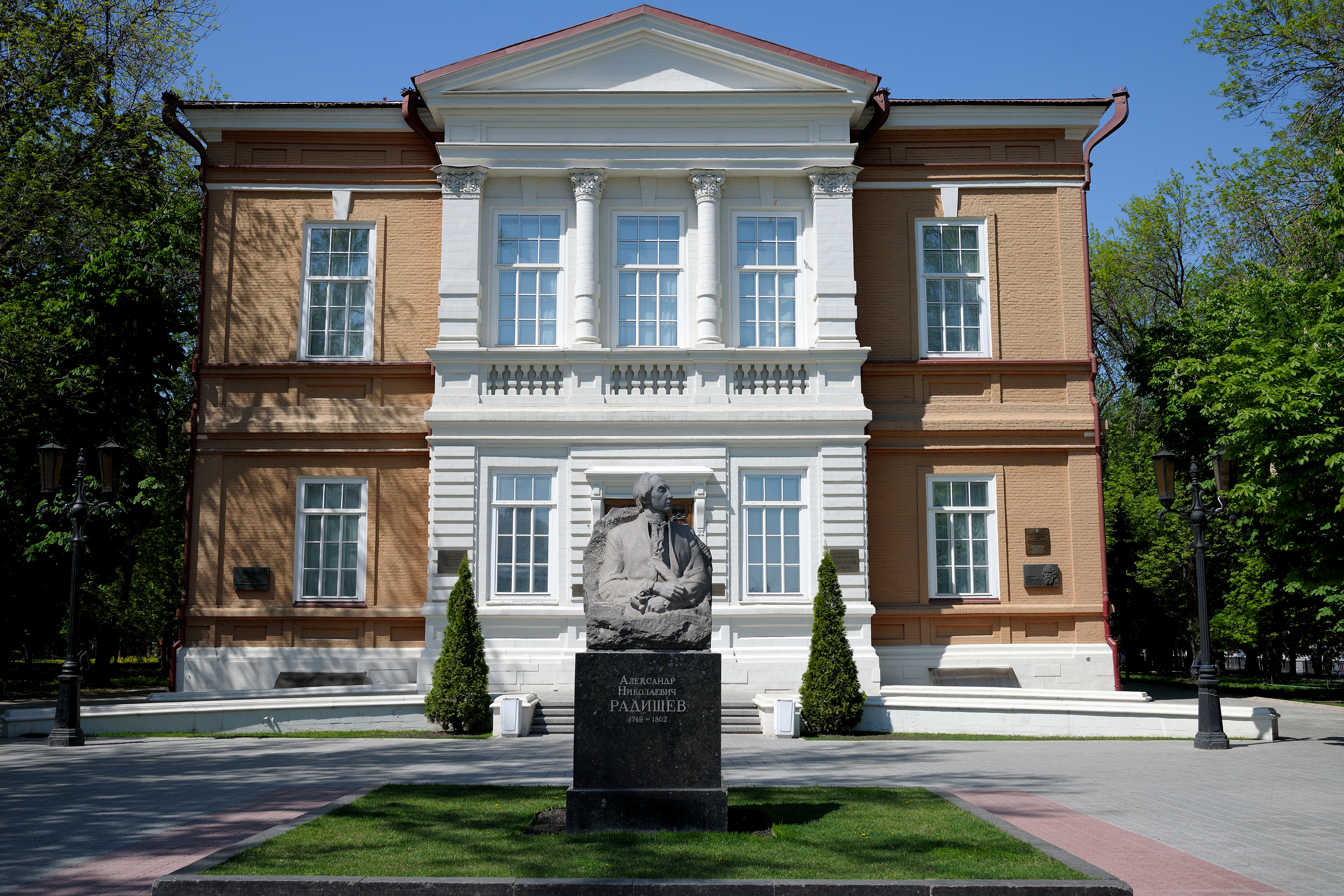 Radishchev Art Museum, Saratov